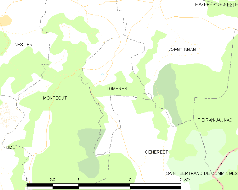 Map of French municipality